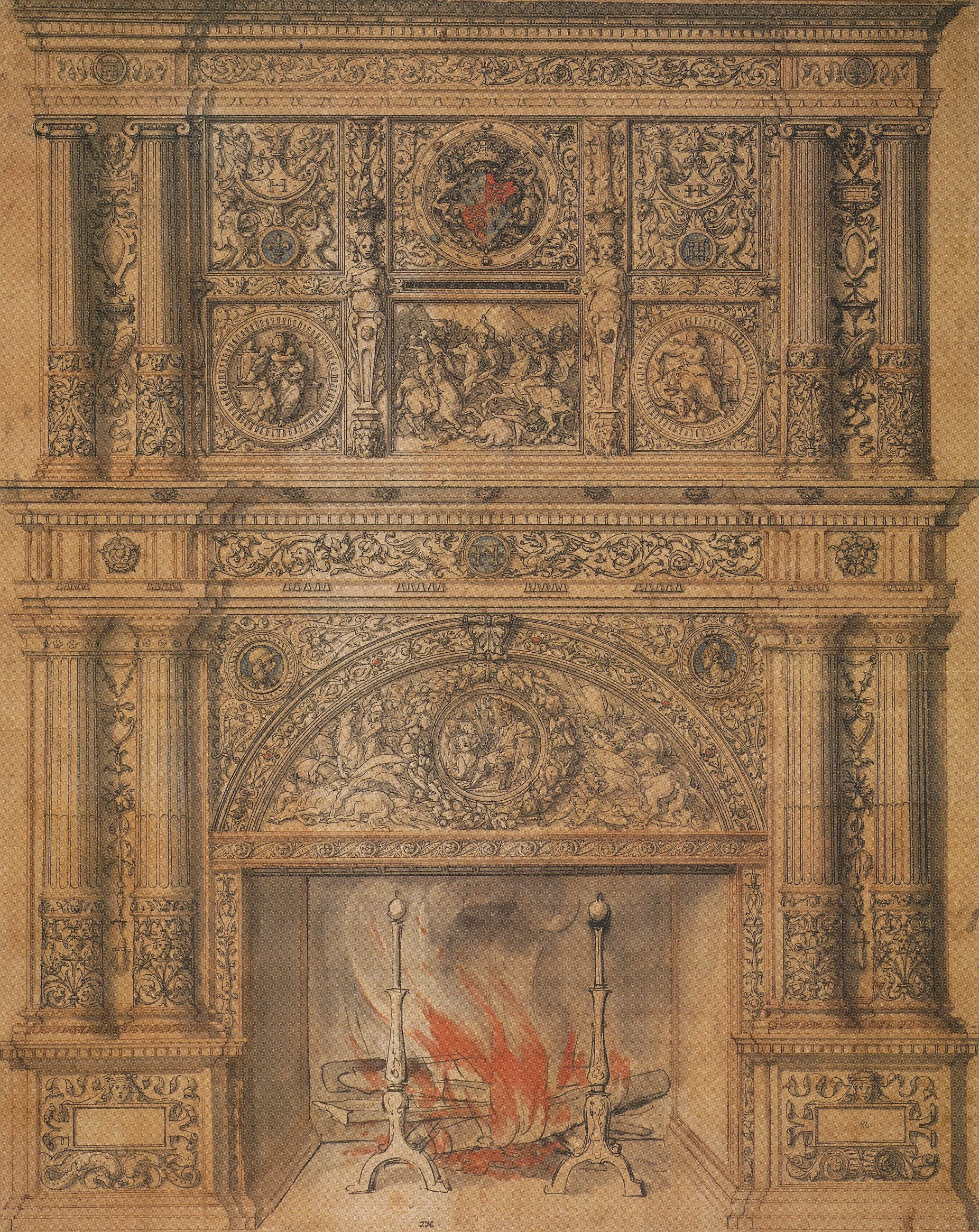 Design for a Chimney-piece. Pen and black ink with grey, blue, and red wash on paper, 53.9 × 47 cm, British Museum, London. Throughout his career, Holbein produced many designs for furniture, plate, jewellery, clocks, and other luxury goods; but this design is the only evidence that he made architectural designs in England, and the coat of arms indicates that he made it for Henry VIII. His chimney-piece design incorporates battle scenes and roundels of blind Justice on the right and Charity on the left and Esther before Ahasuerus below. It has been suggested that the chimney-piece was for the fireplace in Whitehall Palace.